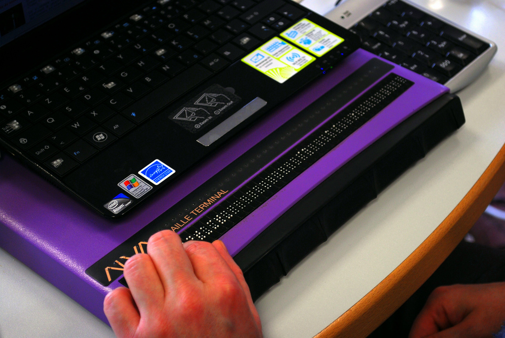 Refreshable Braille display 40 cells